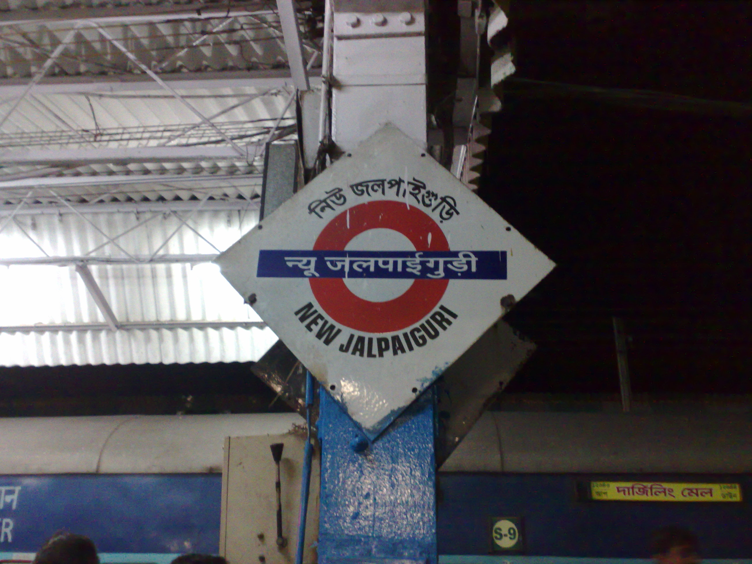 NJP platformboard